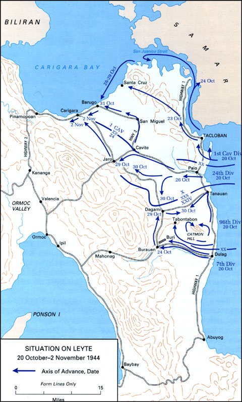 Battle of Leyte, situation en:20 October to en:2 November en:1944.From the official history, US Army Campaigns of World War II, via . Downloaded from [1]